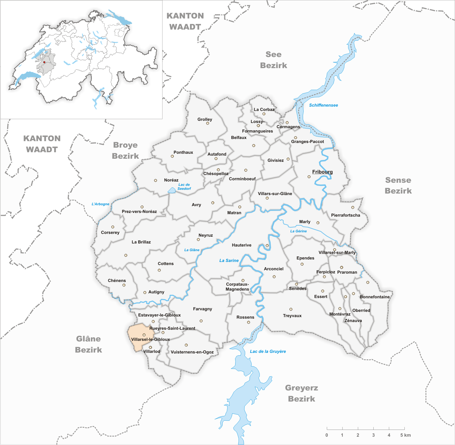 Municipality Villarsel-le-Gibloux Artist: Tschubby